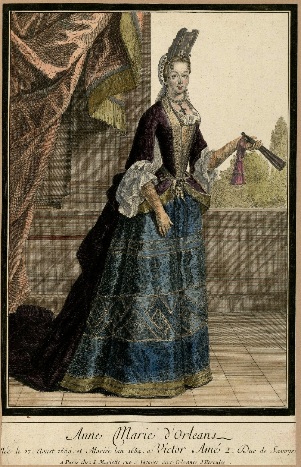 Anne Marie d'Orléans while Duchess of Savoy